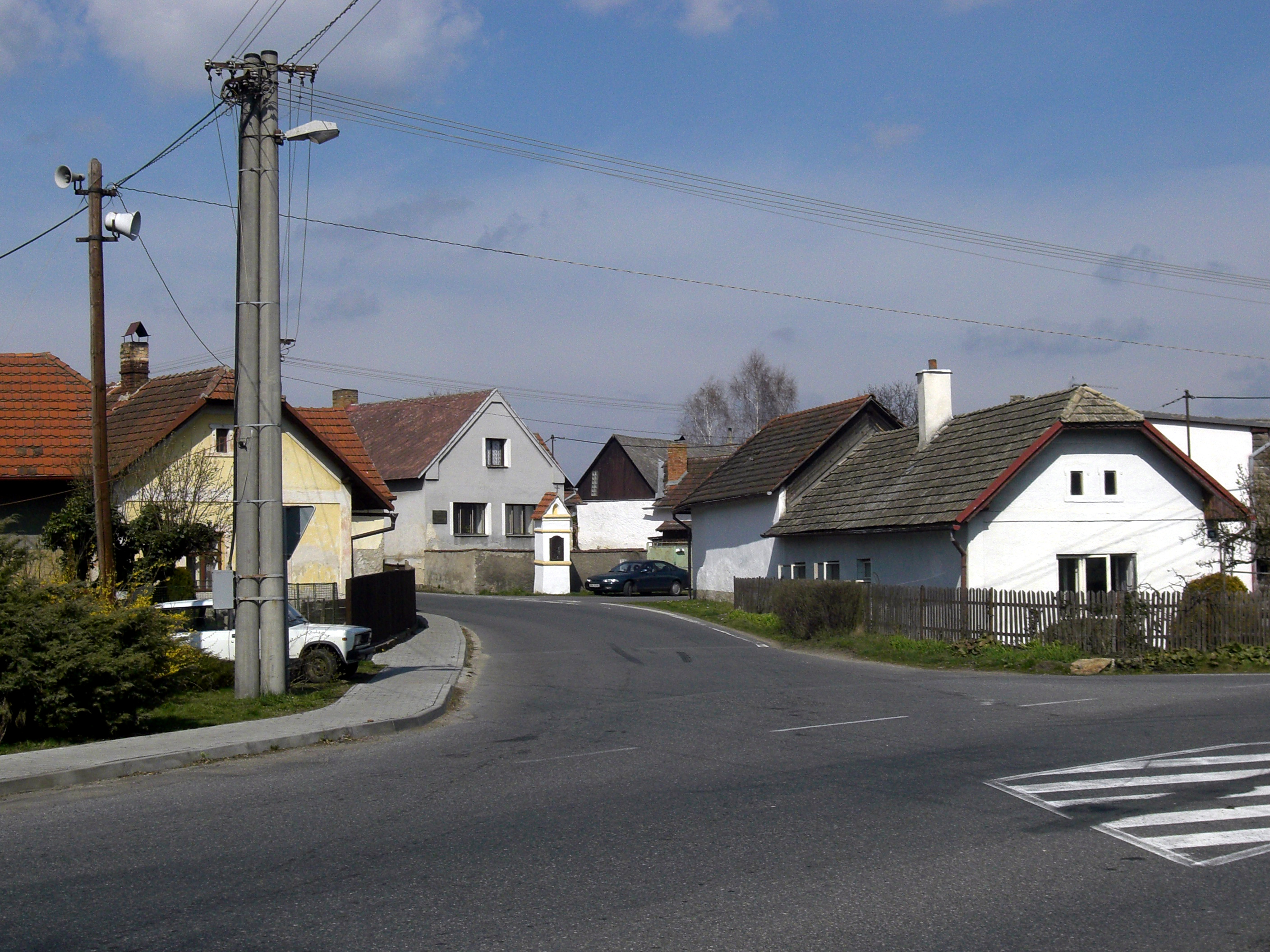 Křenovice village in the Písek District, Czech Republic